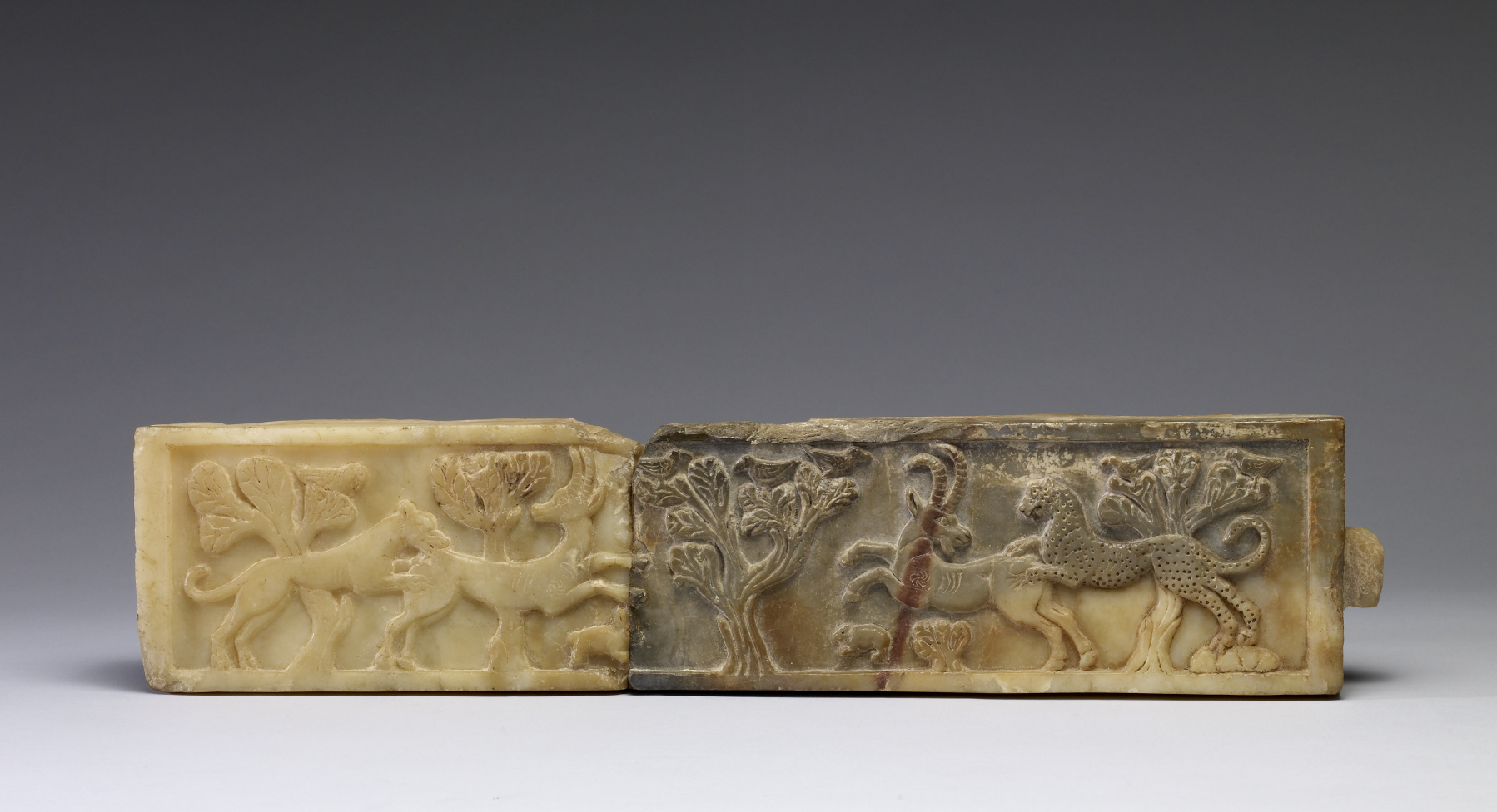 On the left side of this relief, an Asiatic lion attacks a gazelle, while a rabbit tries to jump away from the gazelle's forelegs. On the right, an Arabian leopard jumps down from rocks onto the back of an ibex; a small rodent flees the hoofs of the ibex. Birds in the branches of acacia trees observe the two scenes. The frieze was broken in two during the civil war in Yemen in 1962, and the longer right section was discolored by fire.